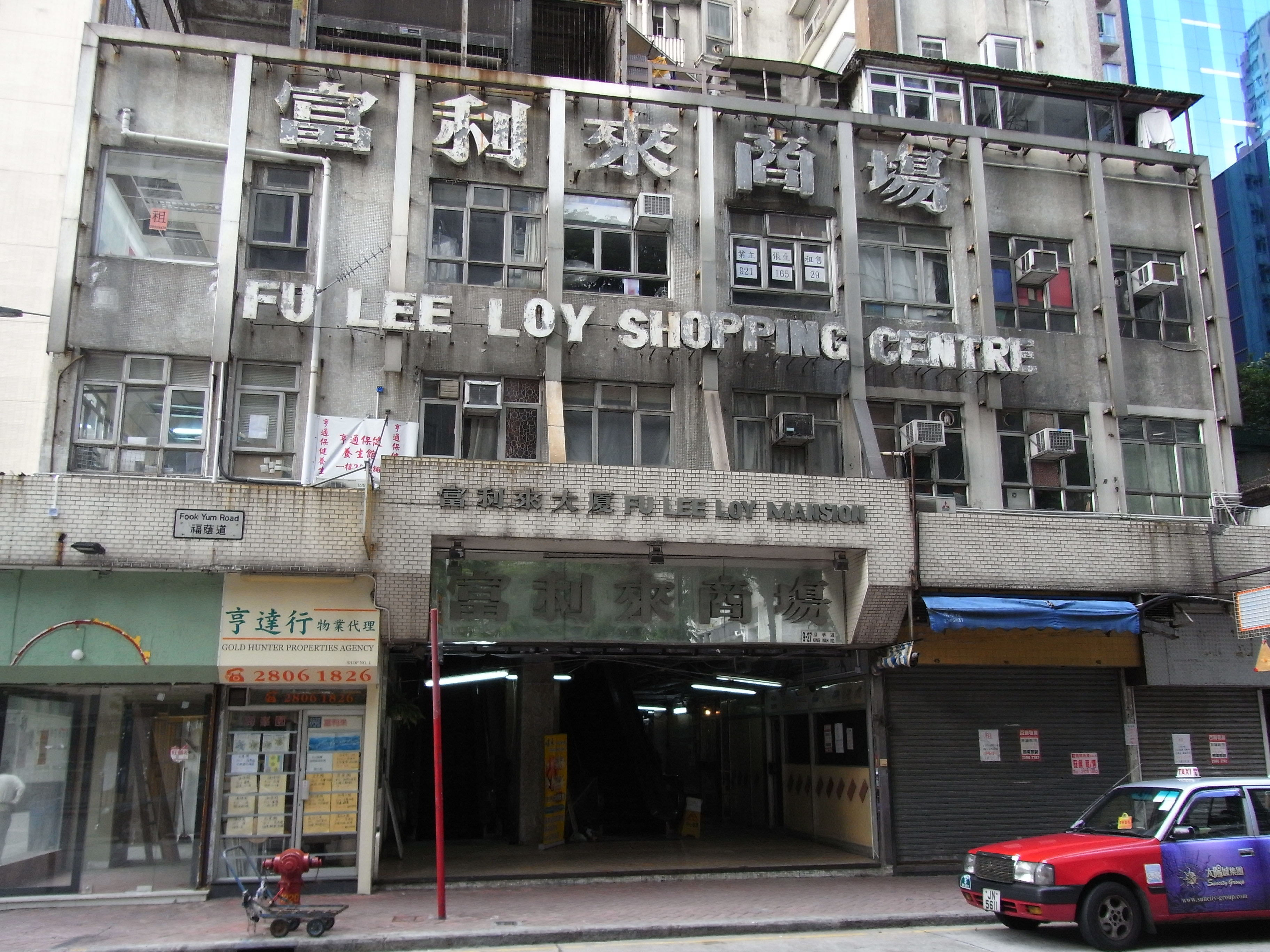 香港島 炮台山海旁富利來商場, Fu Lee Loy Shopping Centre, Fortress Hill, Eastern District, Hong Kong